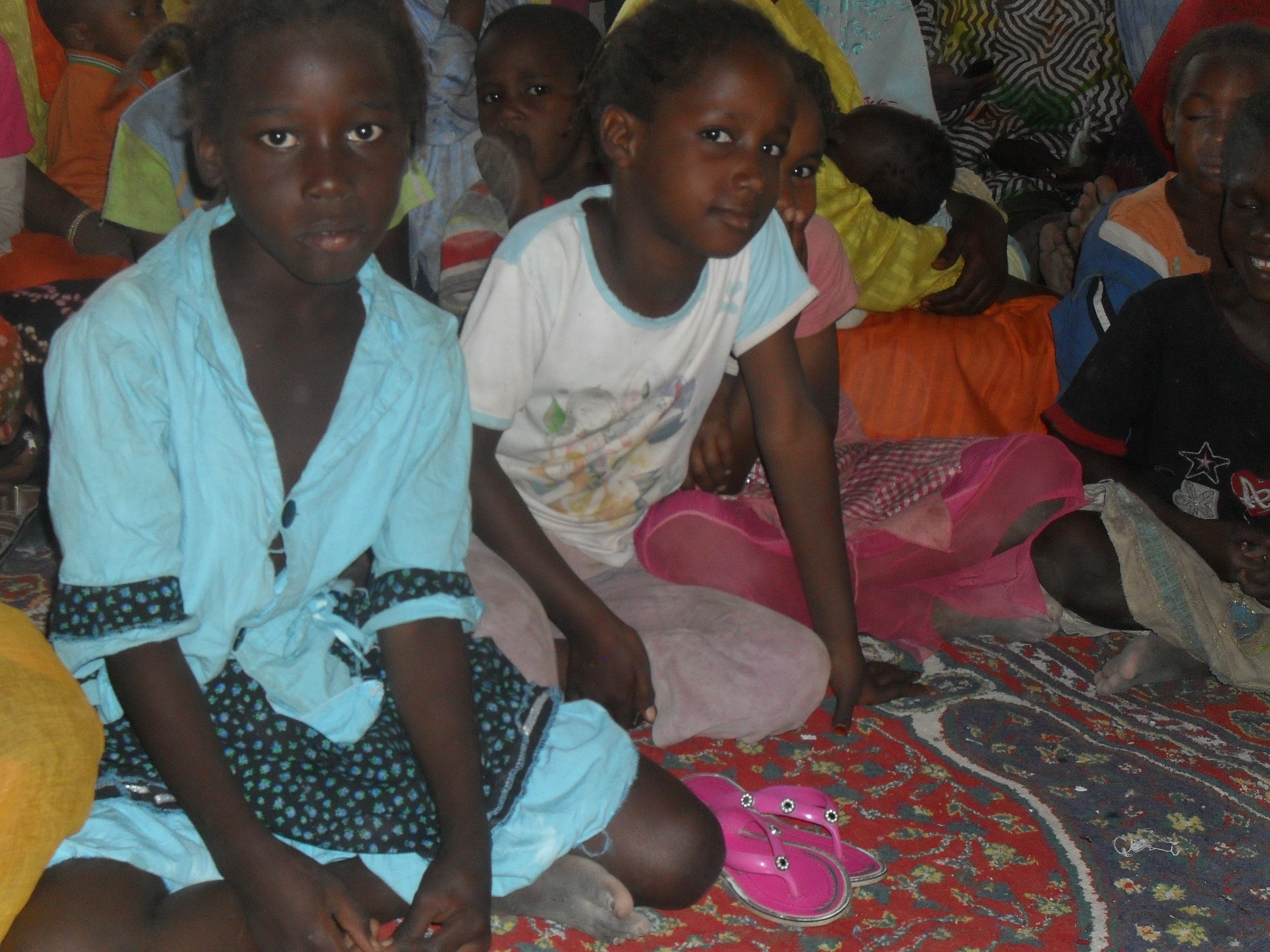 [Jemal Oumar] With many Haratine girls working as servants, human rights activists are determined to see the government enforce anti-slavery laws.